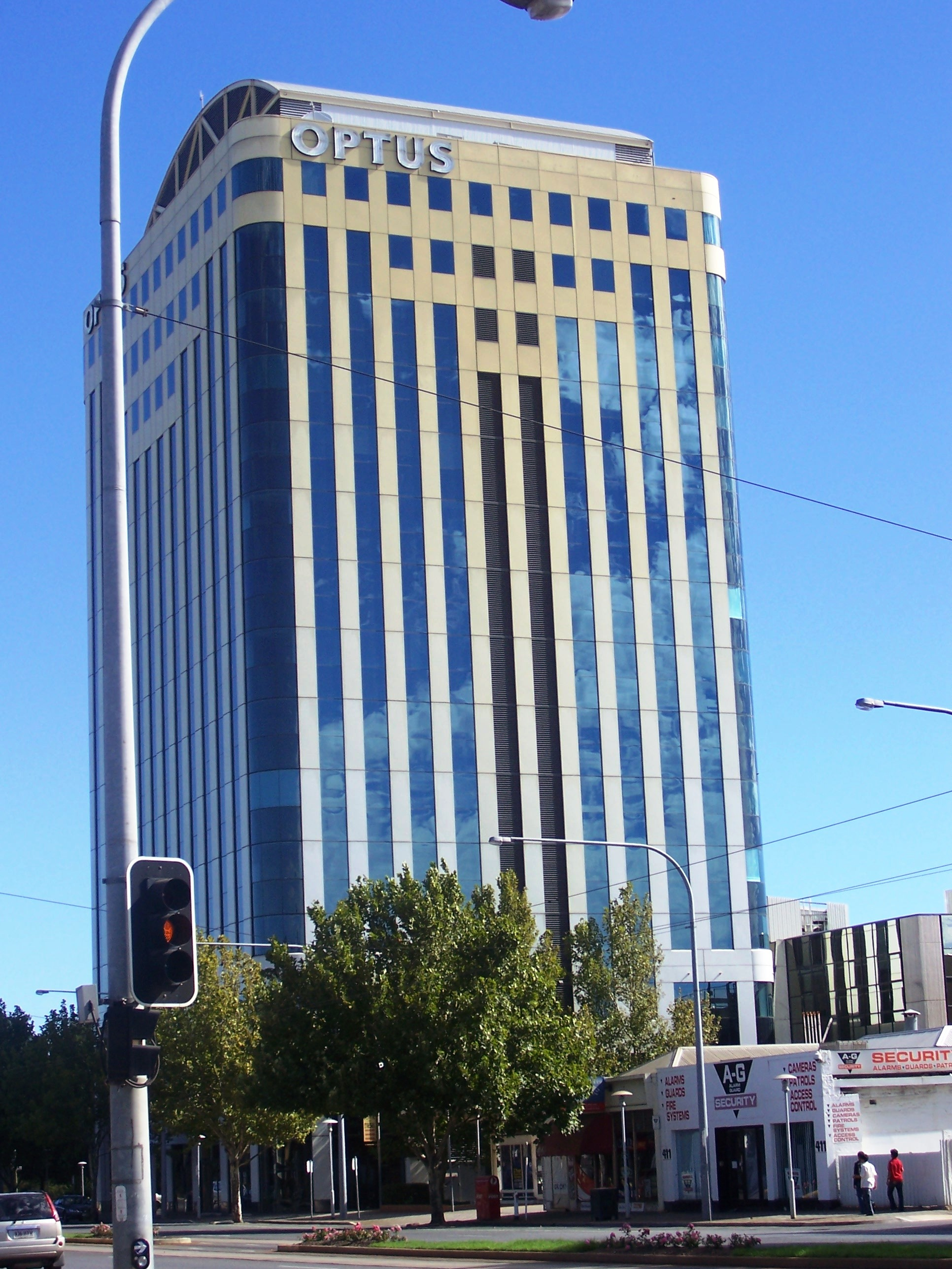 Photo of an Optus building taken in Adelaide, Australia.